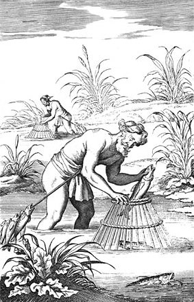 Illustration from An Historical Relation of the Island Ceylon by Robert Knox; published 1681